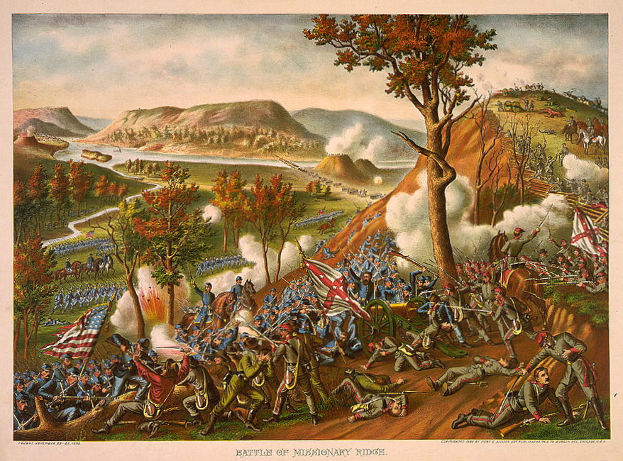 Battle of Missionary Ridge, chromolithograph by Kurz & Allison